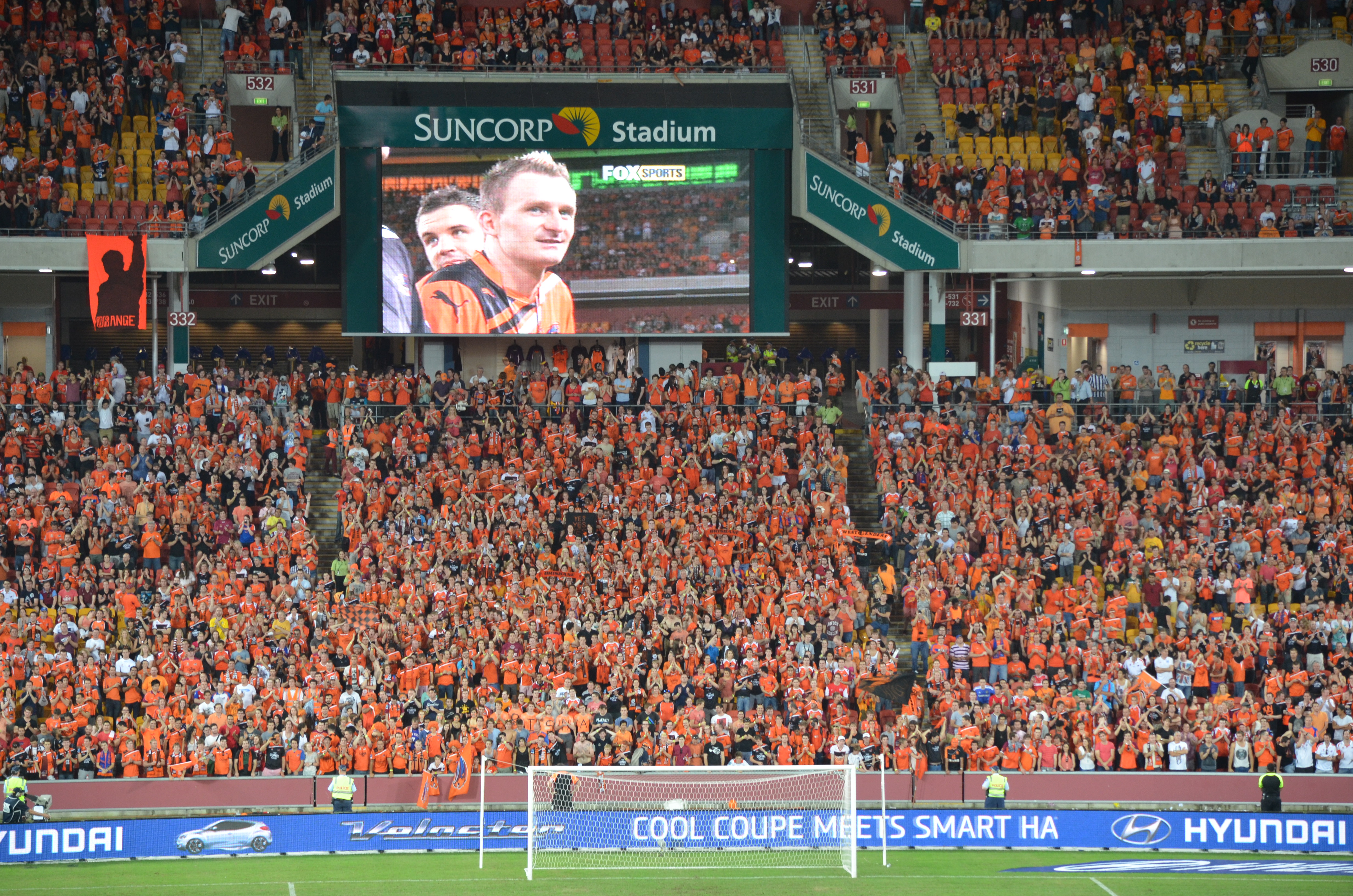 Orange Sunday II, A-League Grand Final, April 22 2012.